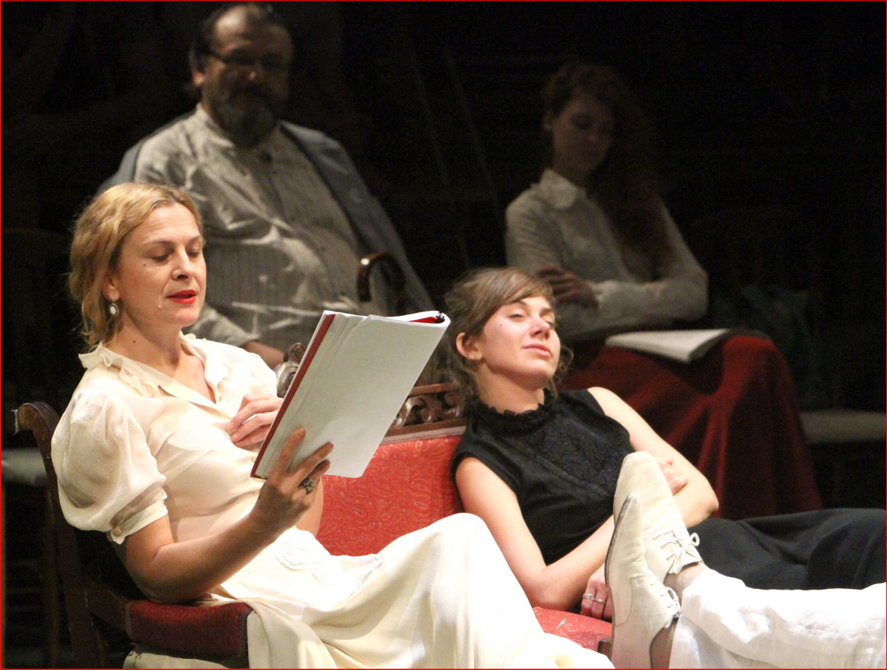 "Seagull" written by Anton Chekhov, directed by Tomi Janežič; Drama of the Serbian National Theatre, Novi Sad, 2012/13; Jasna Đuričić Srpski (latinica): "Galeb" Antona Čehova; režija Tomi Janežič; Drama Srpskog narodnog pozorišta, Novi Sad, 2012/13;Jasna Đuričić Српски (ћирилица): "Галеб" Антона Чехова; режија Томи Јанежич; Драма Српског народног позоришта, Нови Сад, 2012/13; Јасна Ђуричић